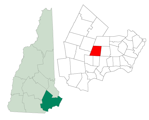 Map of a municipality in Rockingham County, New Hampshire